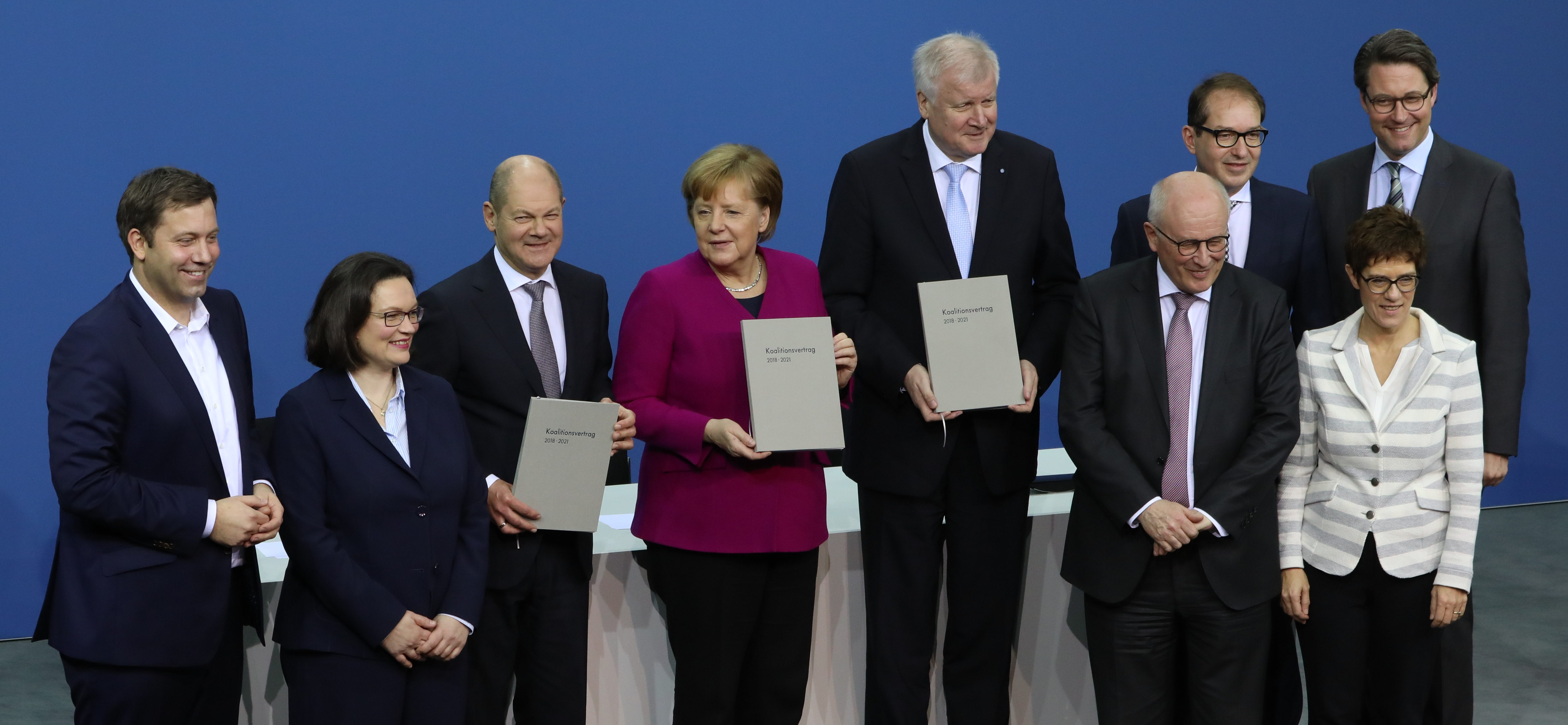 Signing of the coalition agreement for the 19th election period of the Bundestag (Germany). From left: Lars Klingbeil; Andrea Nahles; Olaf Scholz; Angela Merkel (in red); Horst Seehofer; Alexander Dobrindt; Volker Kauder; Annegret Kramp-Karrenbauer; Andreas Scheuer. A photograph taken on 2018-03-12.